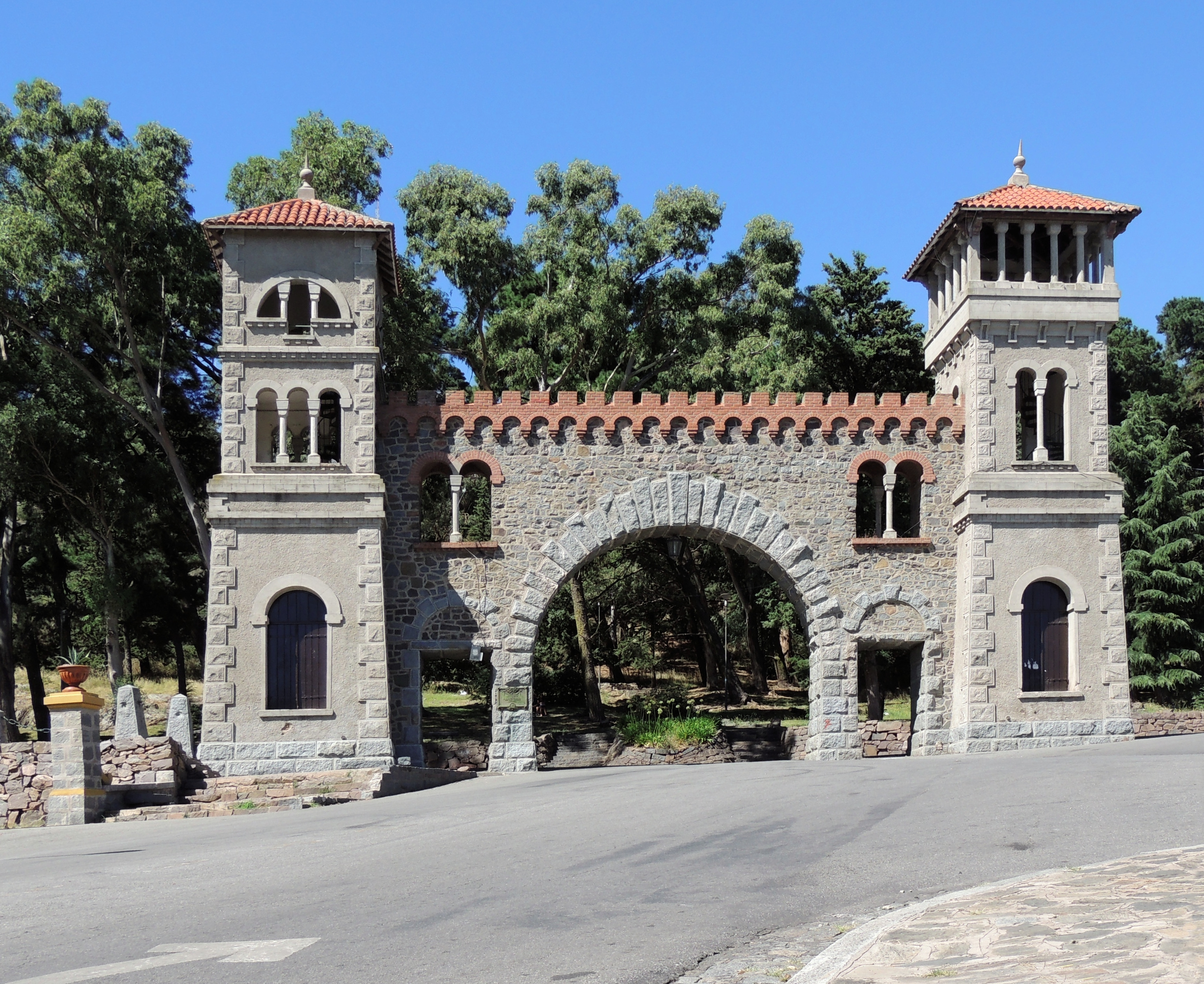 Portal situated in Independence Park of Tandil, Argentina. It is a portal made with granite, it is renaissance style, It was donated by Italian citizen to the city in 1923, it is the port of access to Independence Park